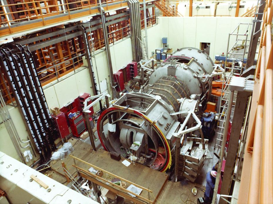 Pictured here is the Tandem Mirror Experiment (the TMX) in 1979. This was magnetic mirror machine, and a primary tool for understanding high density plasma confinement inside magnetic fields. Other information The photo is public domain because it was taken by an agent of the federal government